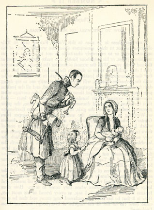 Illustration to chapter 35 of Vanity Fair by William Makepeace Thackeray